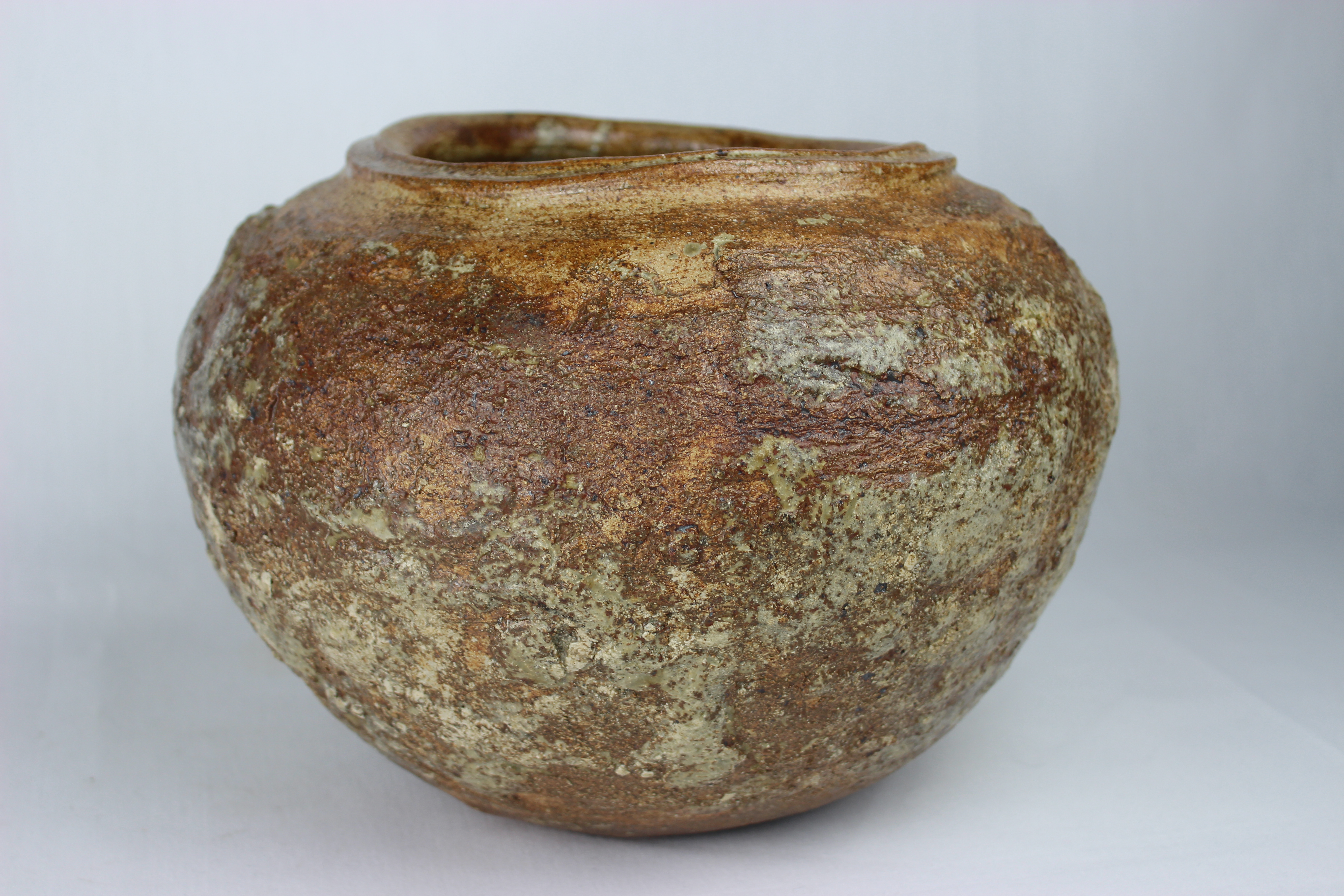 Coiled pot, oval shaped with rough textured surface. From the W.A. Ismay Studio Ceramics Collection at York Art Gallery